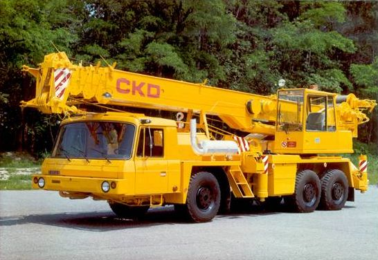 Mobile crane AD28